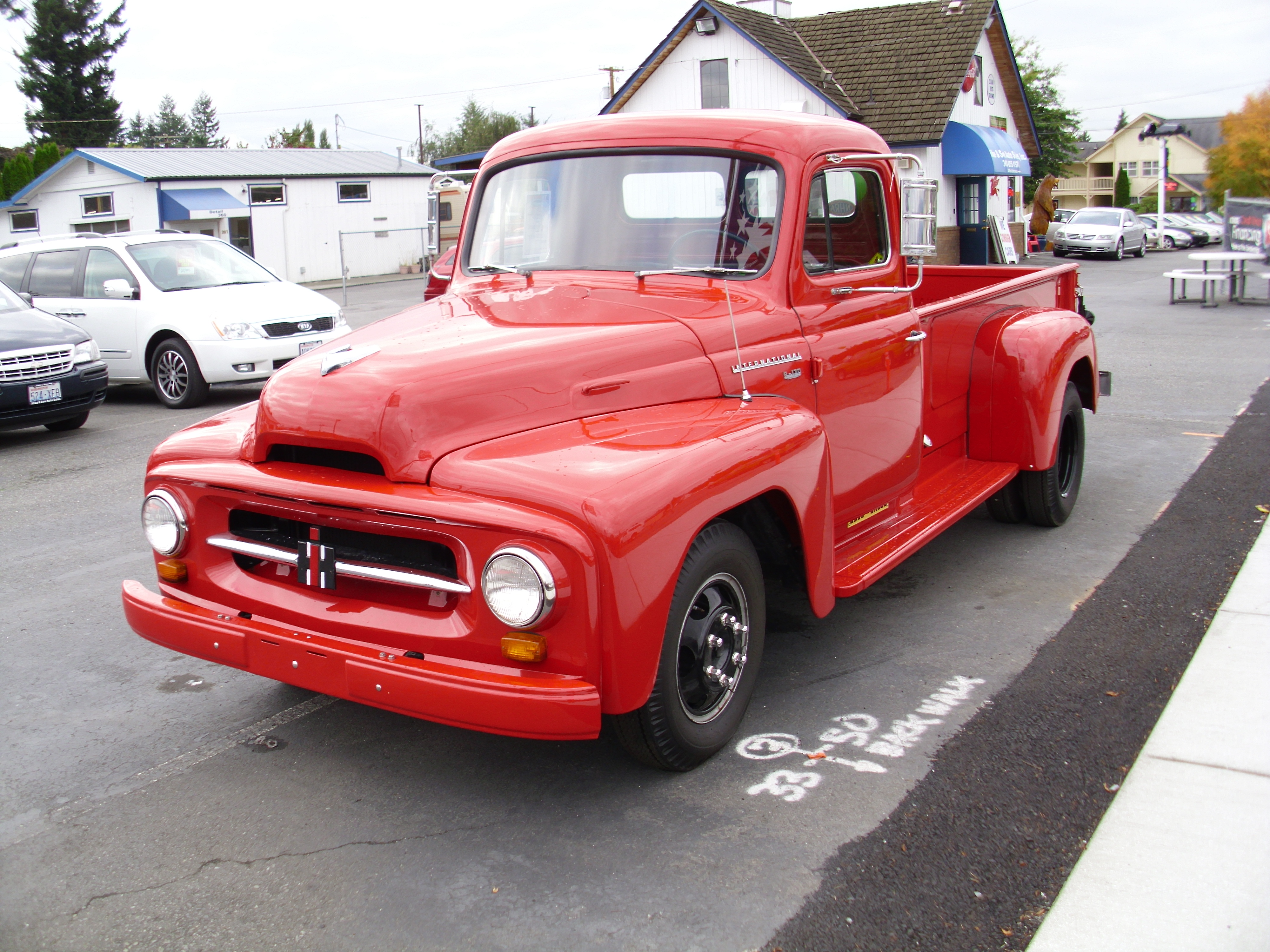 Used car lot. I've seen this while driving by, but today was on foot checking out the new sidewalks just built.